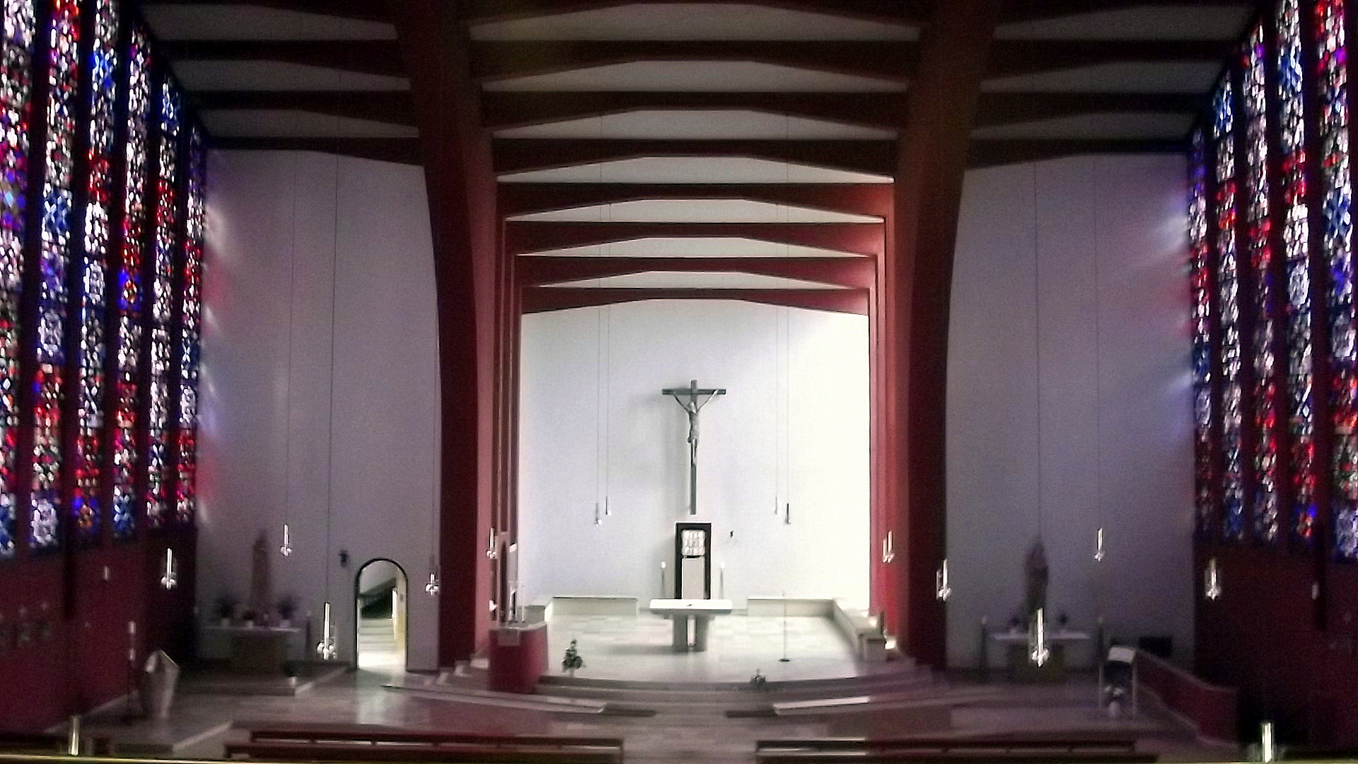 Interior of the roman catholic St. Matthias church in Riegelsberg, Saarland, Germany